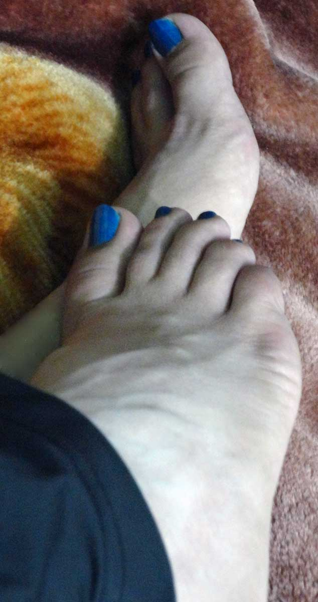 Human female feet with blue painted toe nails